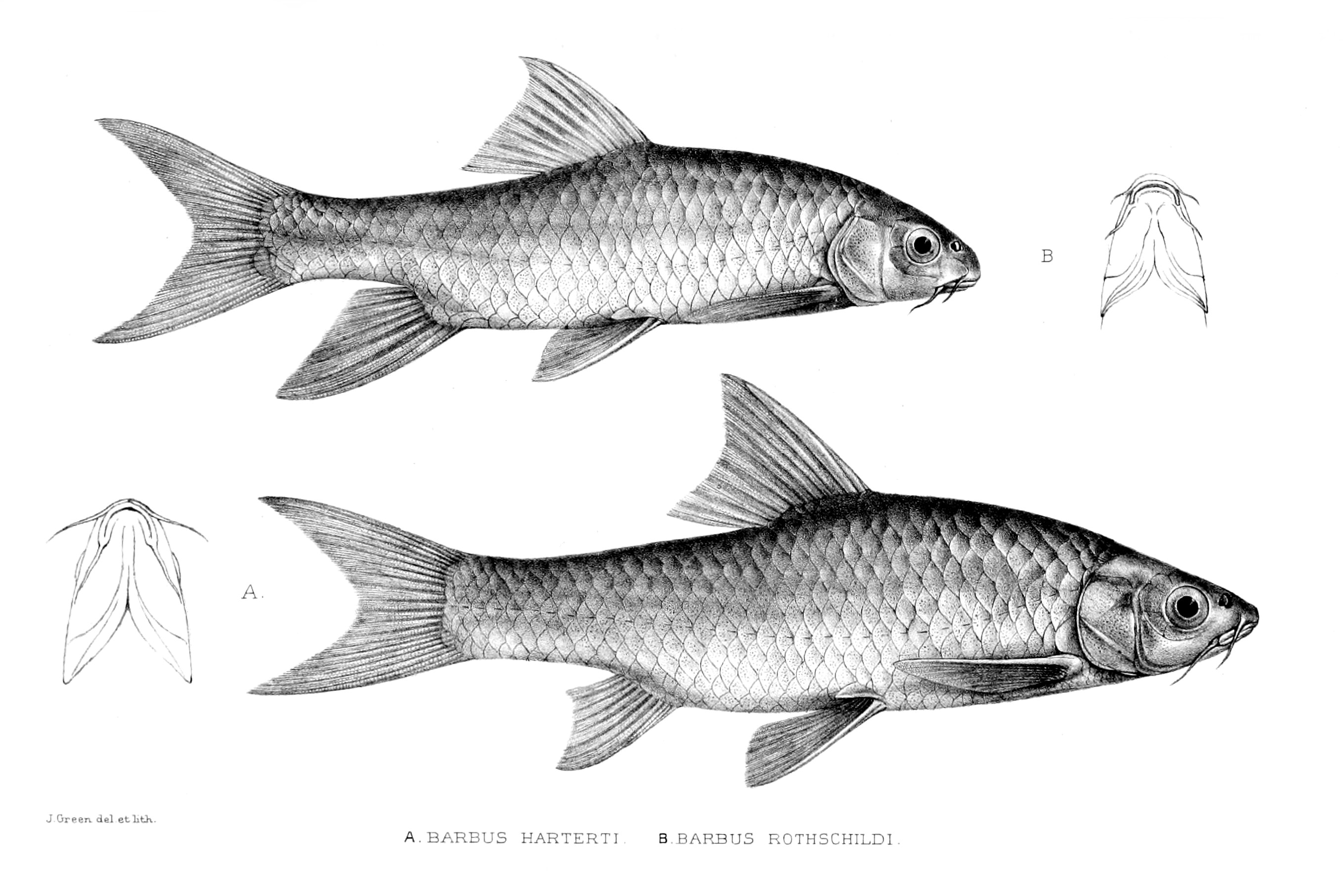 « Barbus harterti » = Barbus harterti « Barbus rothschildi » = Barbus harterti